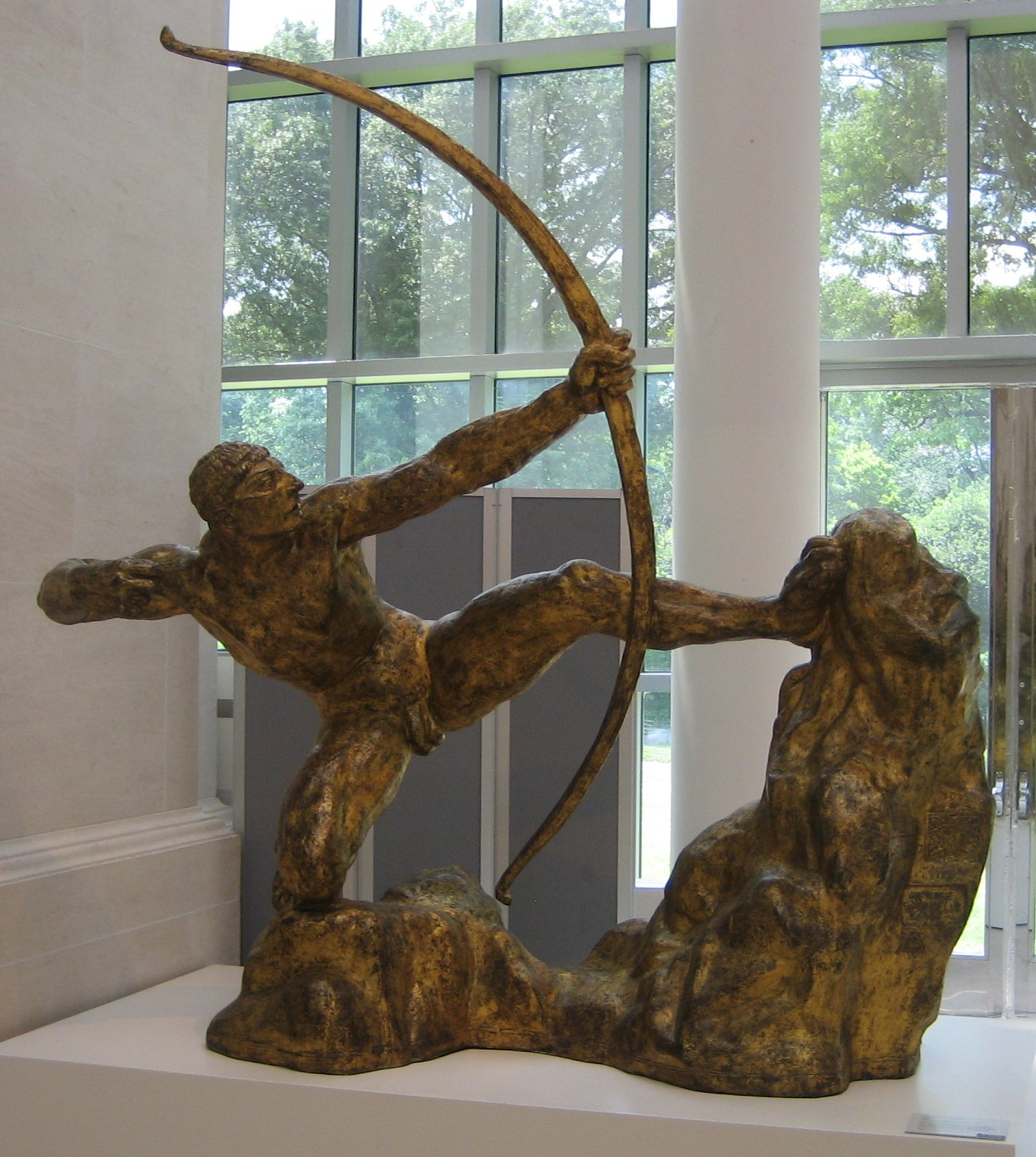 Héraklès archer in french, the Archer by Emile Antoine Bourdelle